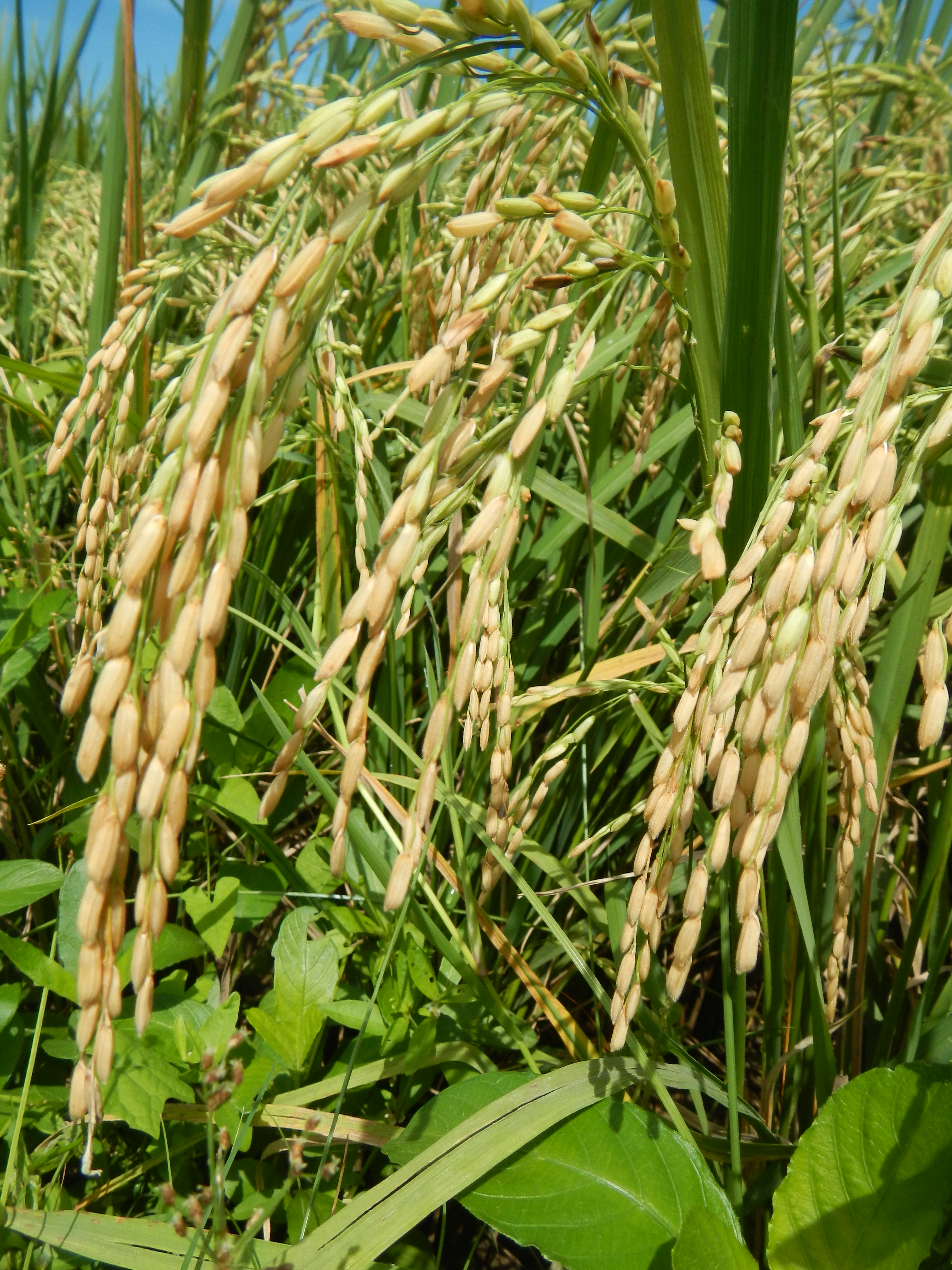 San Ildefonso, Bulacan Barangay Basuit, San Ildefonso, Bulacan (burning sun so bright over Violet flowers in the Philippines, golden rice grains and Paddy fields in Bulacan, rough and winding roads, Mangoes in the Philippines orchards to Barangay Hall, Chapel beside Basuit Elementary School surrounded by Tomatoes in the Philippines from its Welcome arch or road-sign beside Barangay Gabihan, San Ildefonso, Bulacan).